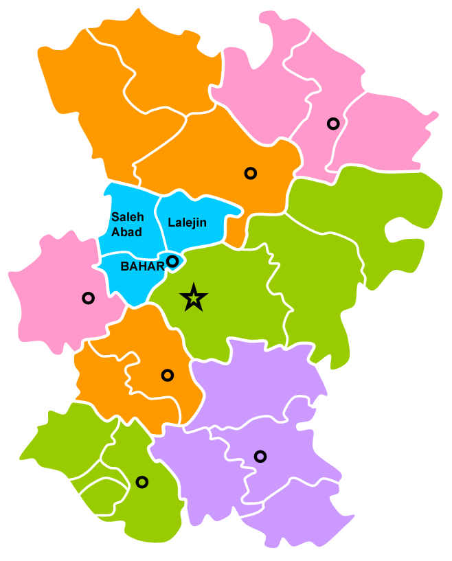 Bahar sharestan Hamedan province, Administrative map